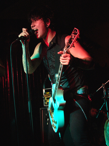 Matt Heafy of Trivium playing live on an early tour in 2005. Image by Rokfoto on Flickr.